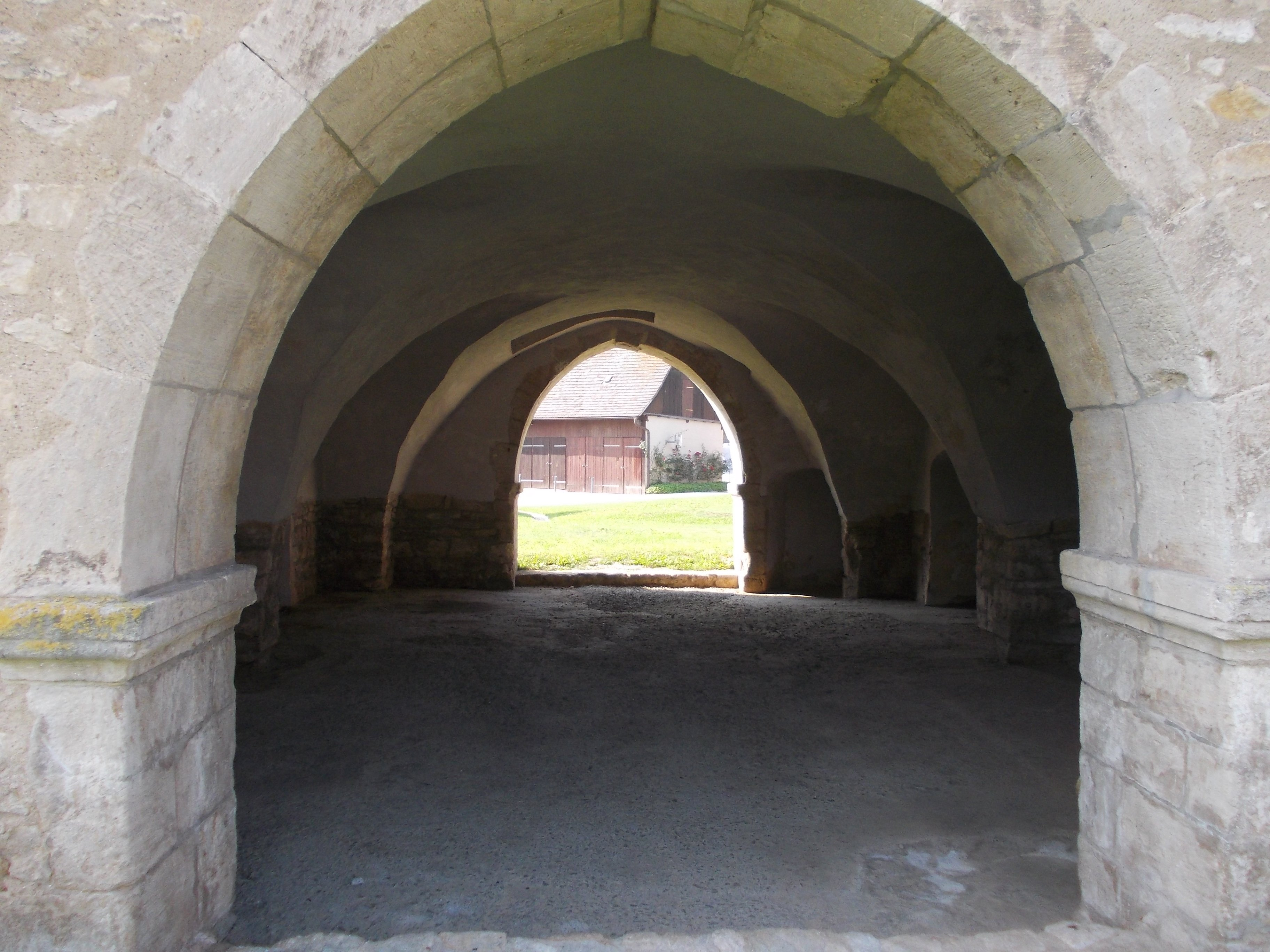 Gothic House in Schulpforte (Naumburg, district: Burgenlandkreis, Saxony-Anhalt)